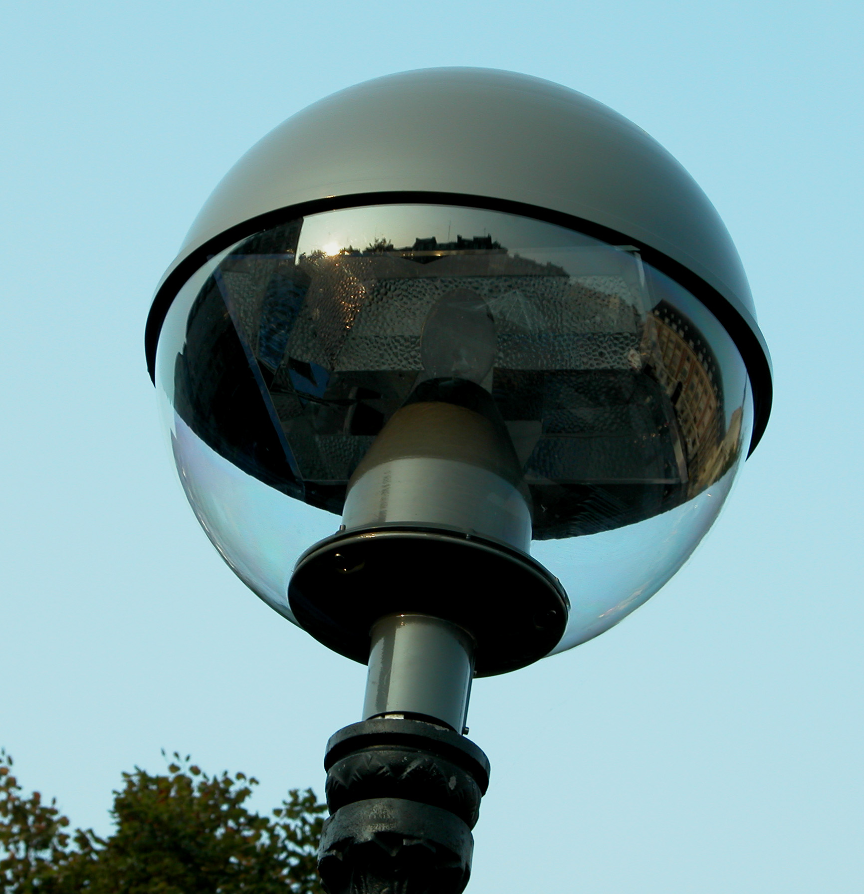 special light against light pollution, in Lille, North of France